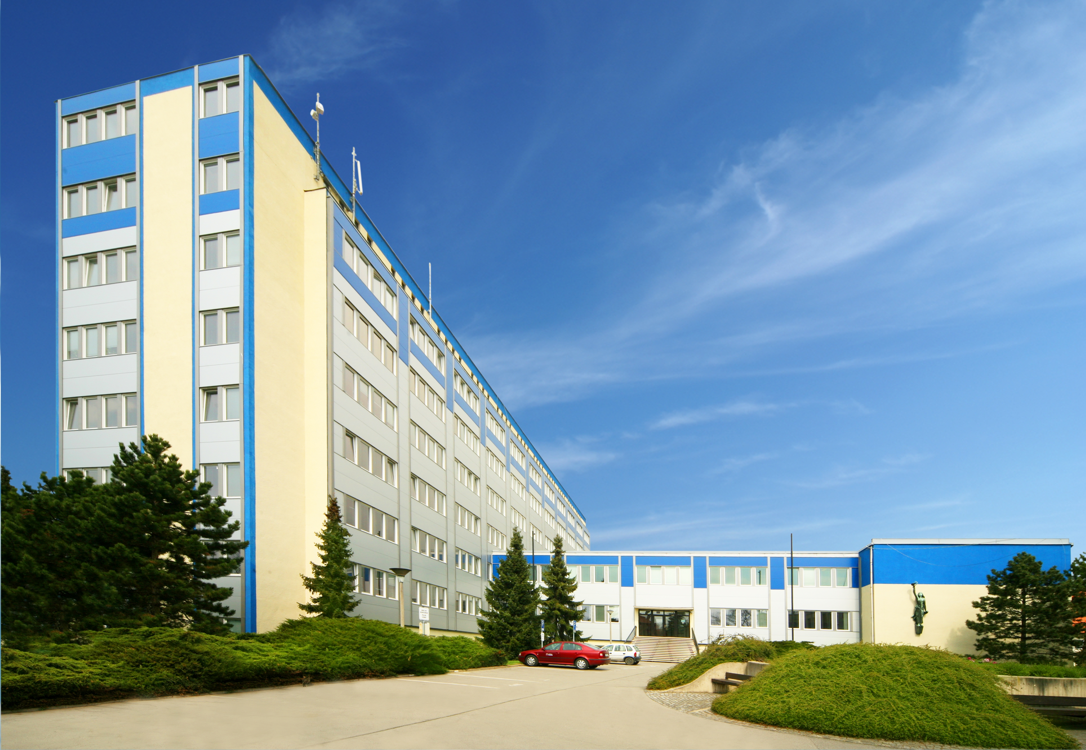 SÚKL building